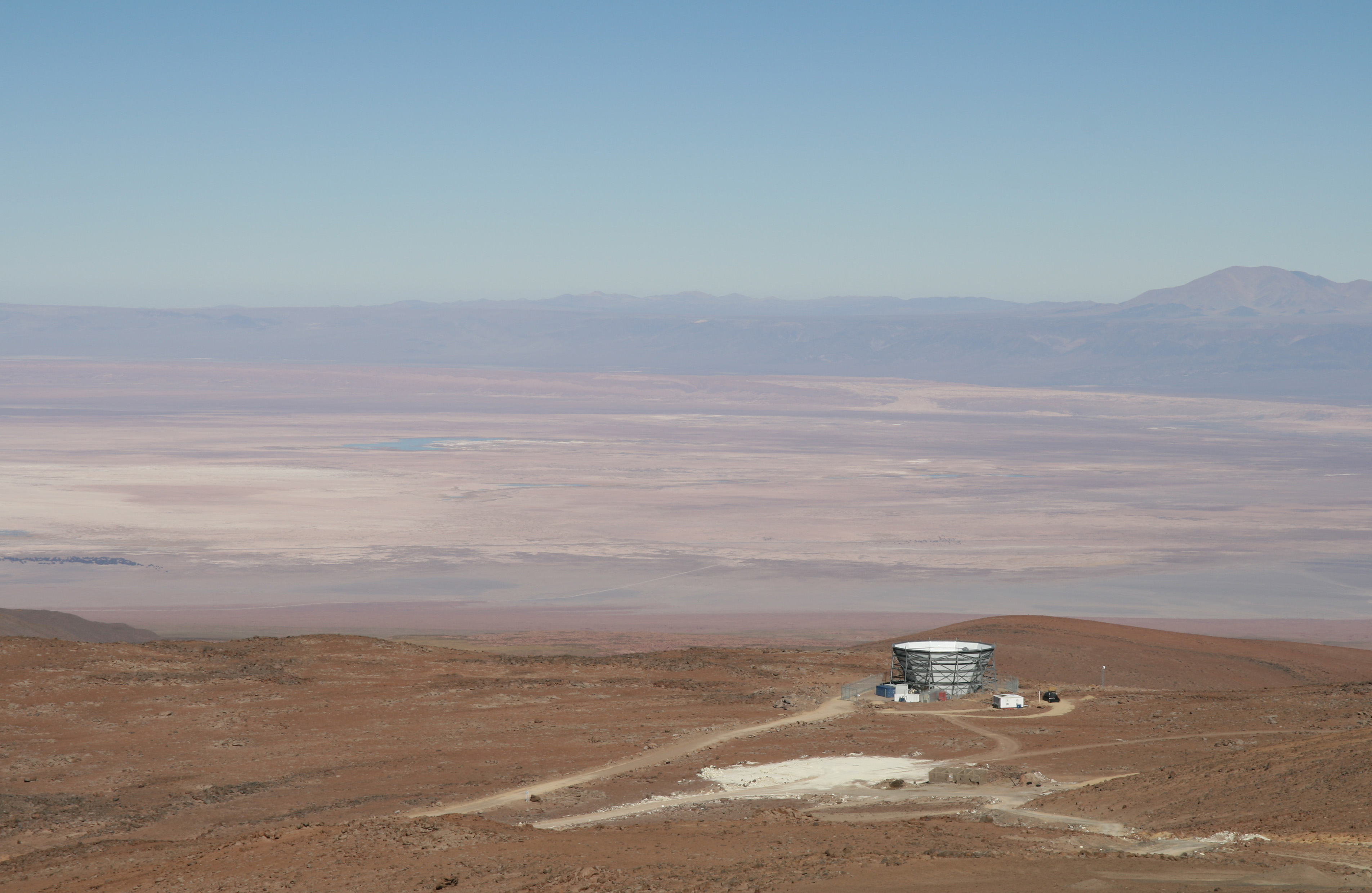 Atacama Cosmology Telescope, Cerro Toco, Chile